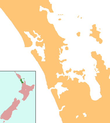 Locator map for Auckland Region, New Zealand